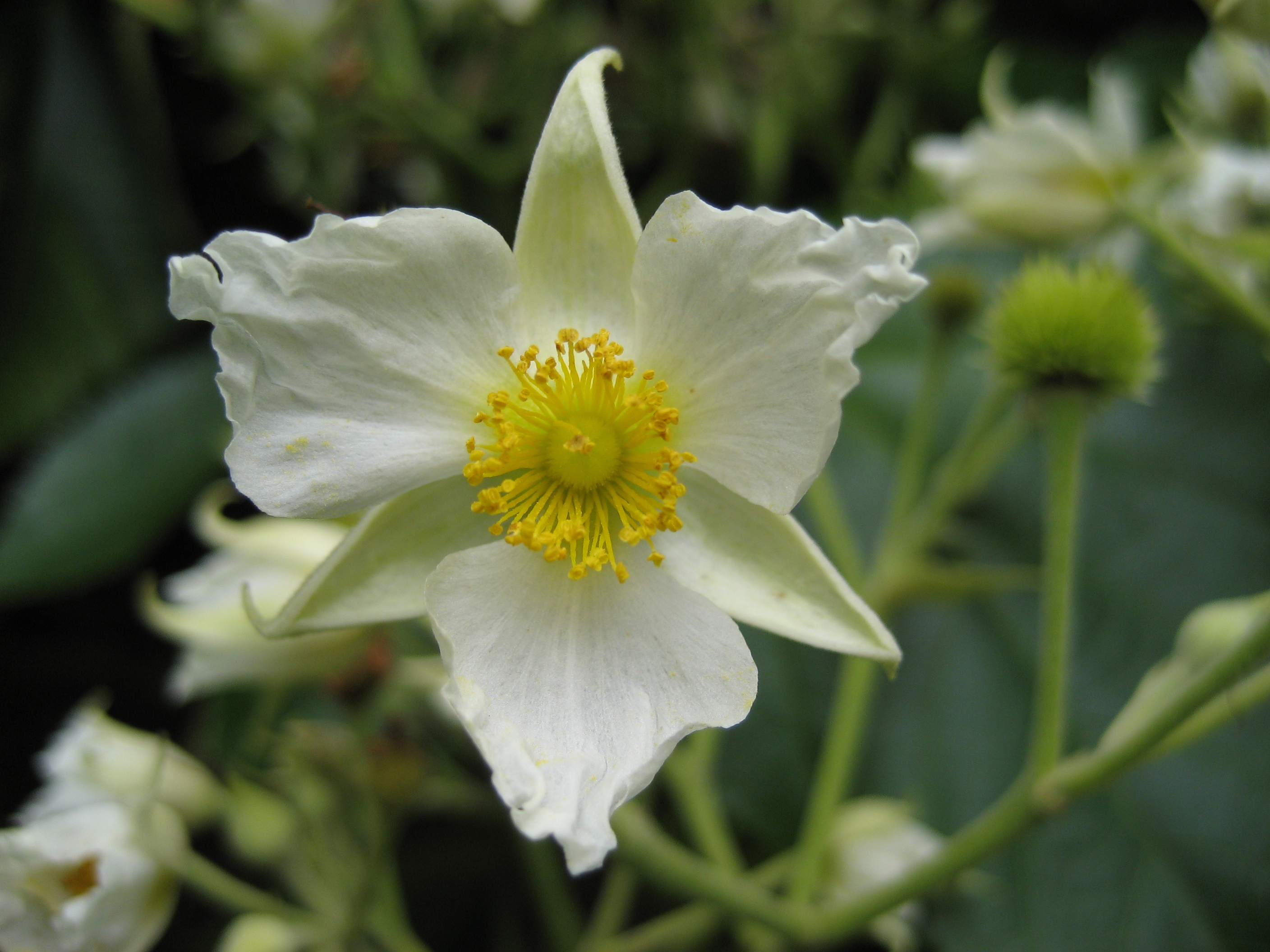 Flower of Whau (Entelea arborescens), Auckland, New Zealand.